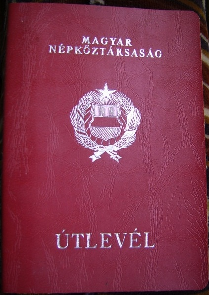 Passport for citizens visiting East-European (East-Germany, Czehoslovakia, Poland, Romania, Bulgaria, Albania, Sovietunion) countries; People's Republic of Hungary, 1972